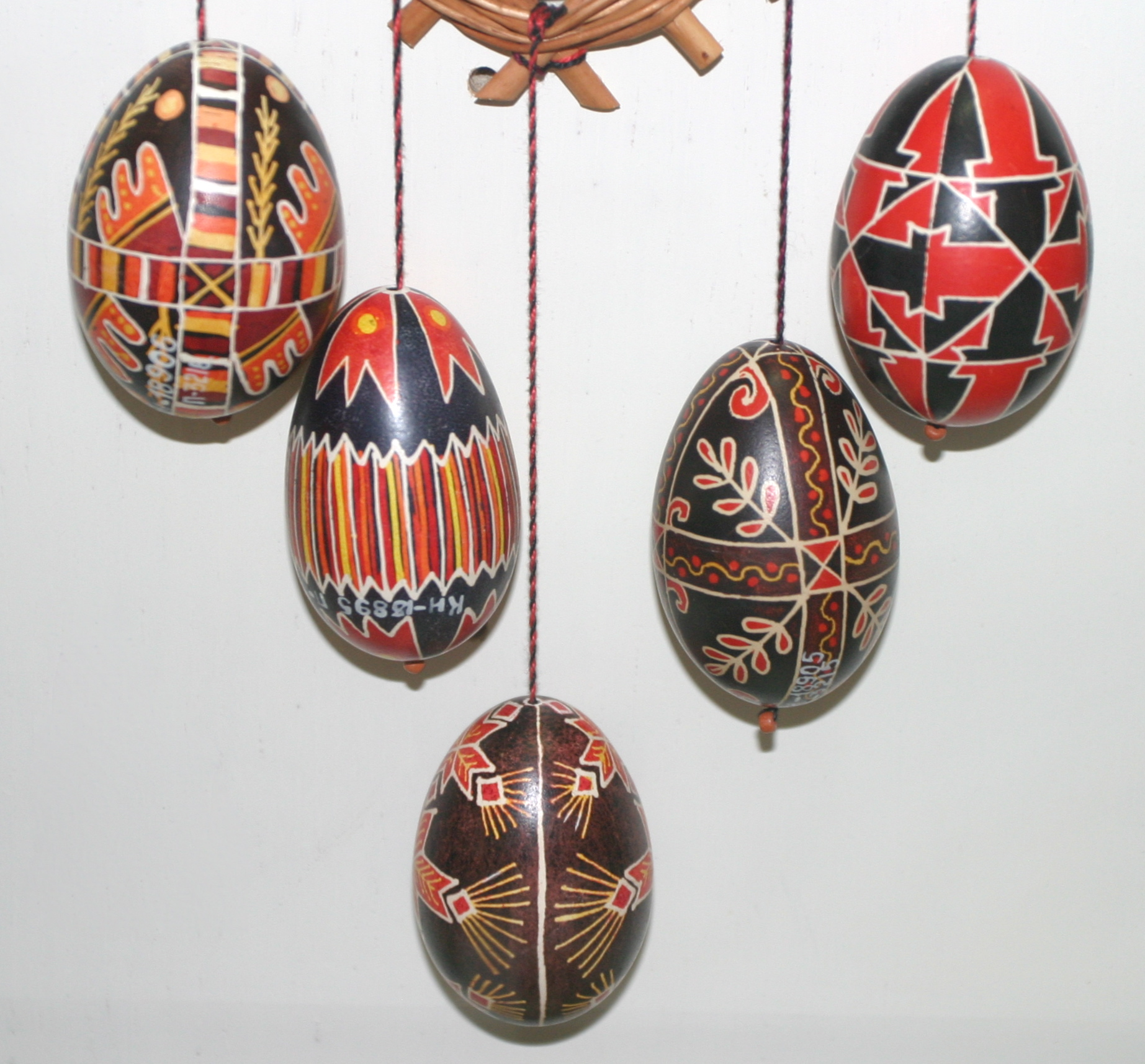 Pysanky from the exhibits in the Museum of the Pysanka, Kolomiya, Ukraine